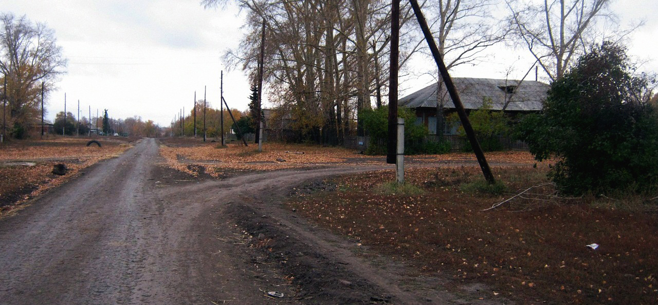 Verkh-Borovlyanka, 60 Let Oktyabrya/Sadovaya x-ing